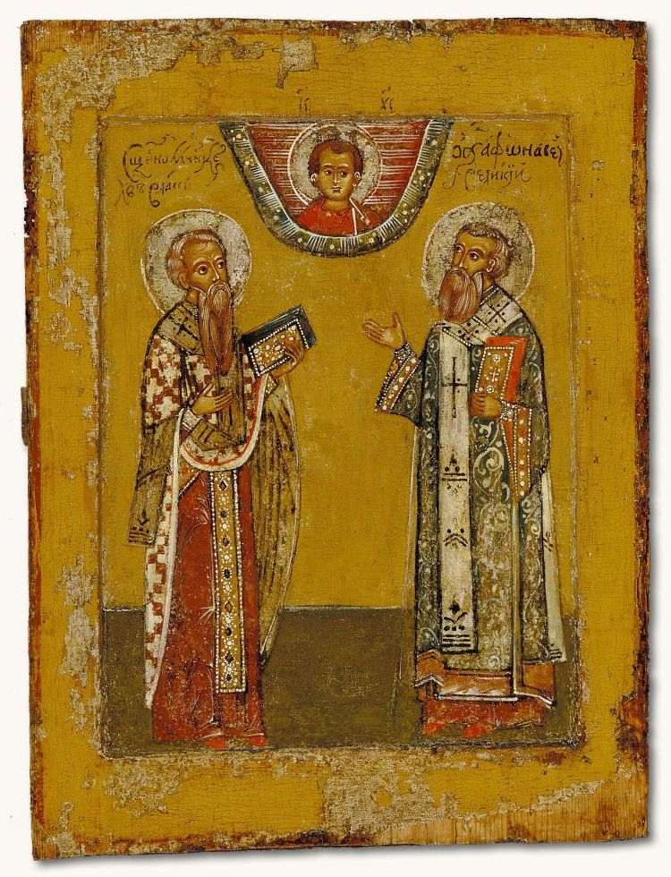 Harlampi Saints Athanasius the Great and to the image of Christ Emmanuel Russian North, XVII century.